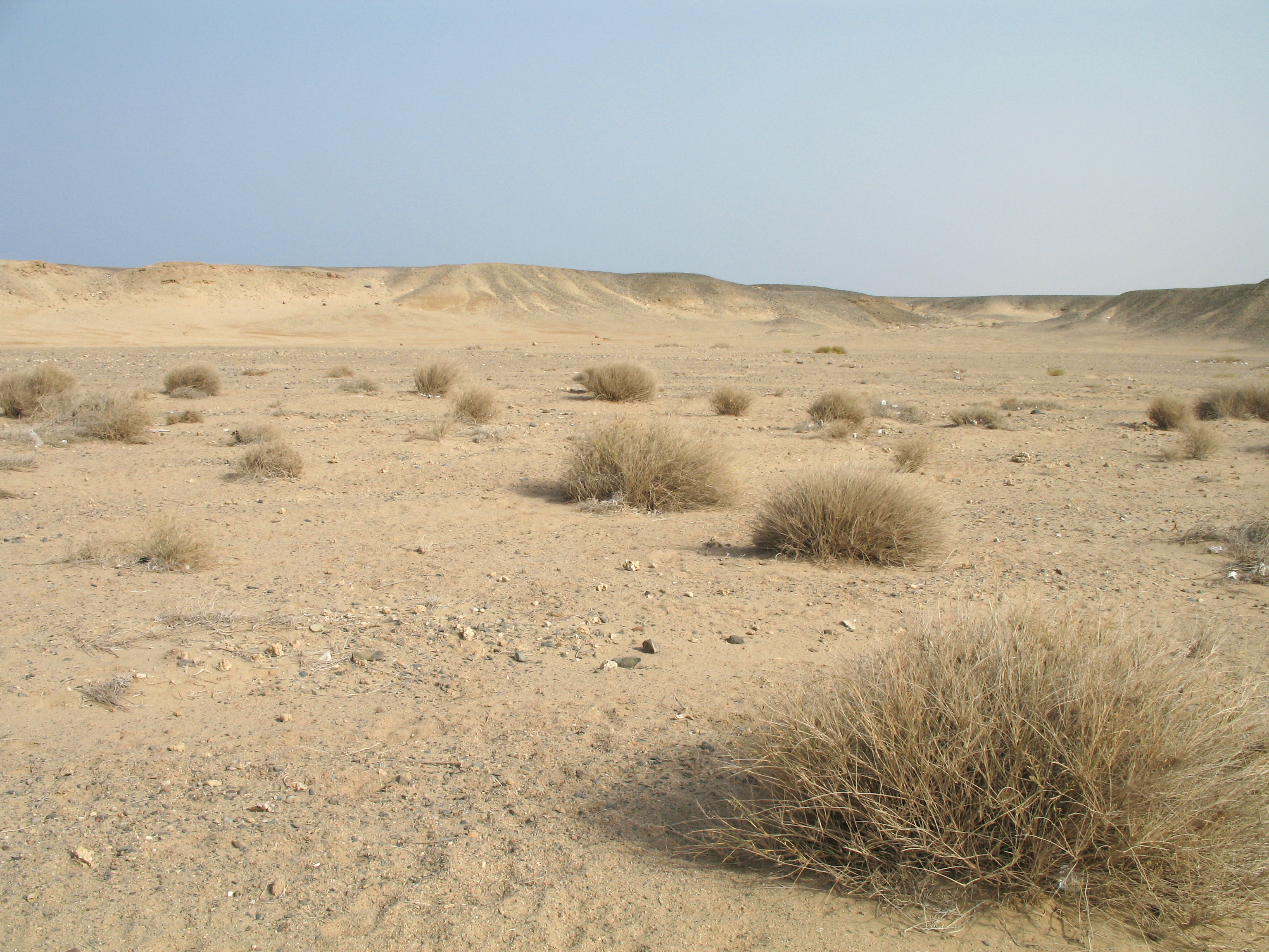 Desert near Marsa Mubarak (Marsa Alam, Egypt)